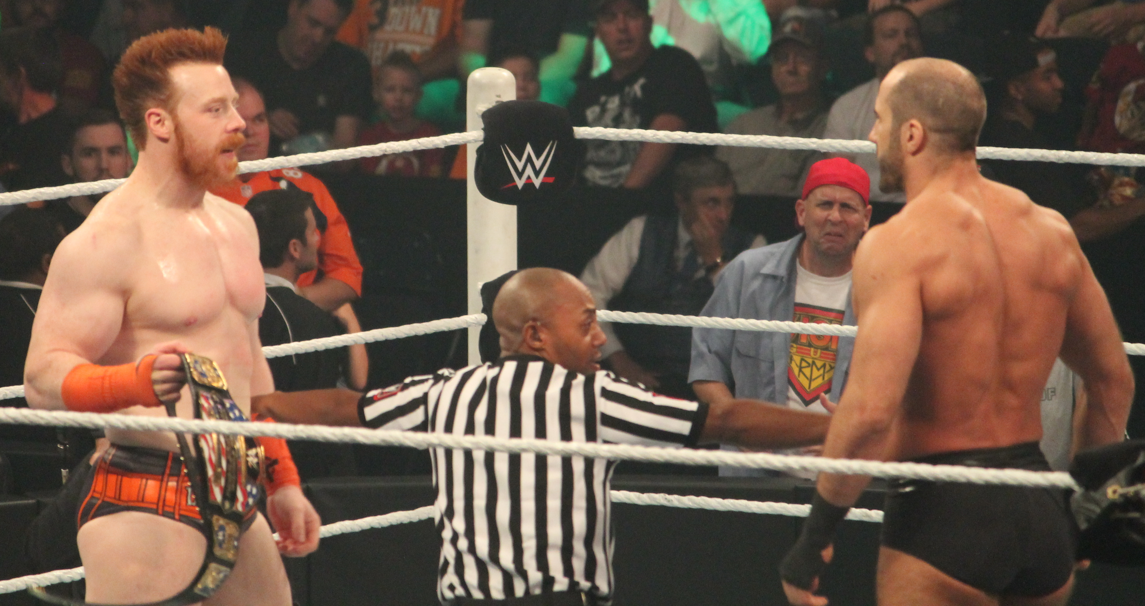 United Champion Sheamus vs. Cesaro at Night of Champions on September 21, 2014. Cropped from original.